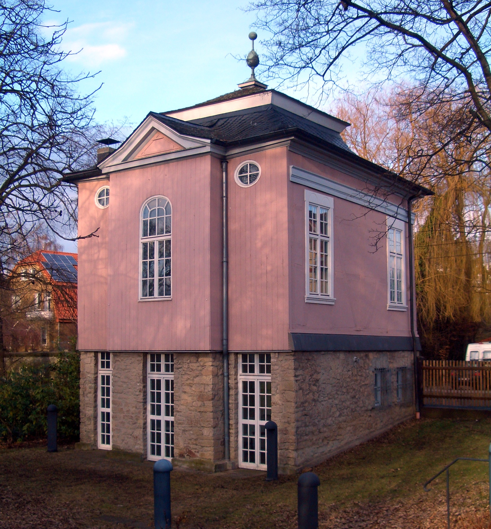 Rokoko-Pavillon at Stöckheim (Braunschweig) (View from the garden)